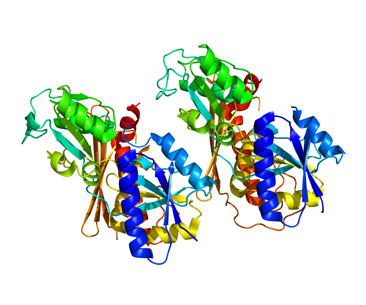 Structure of protein HMBS.Based on PyMOL rendering of PDB 3ECR.